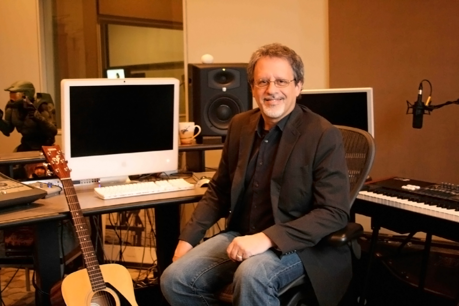 Michael Salvatori is a composer, known for his collaborative scores with Martin O'Donnell for the Halo video game series.